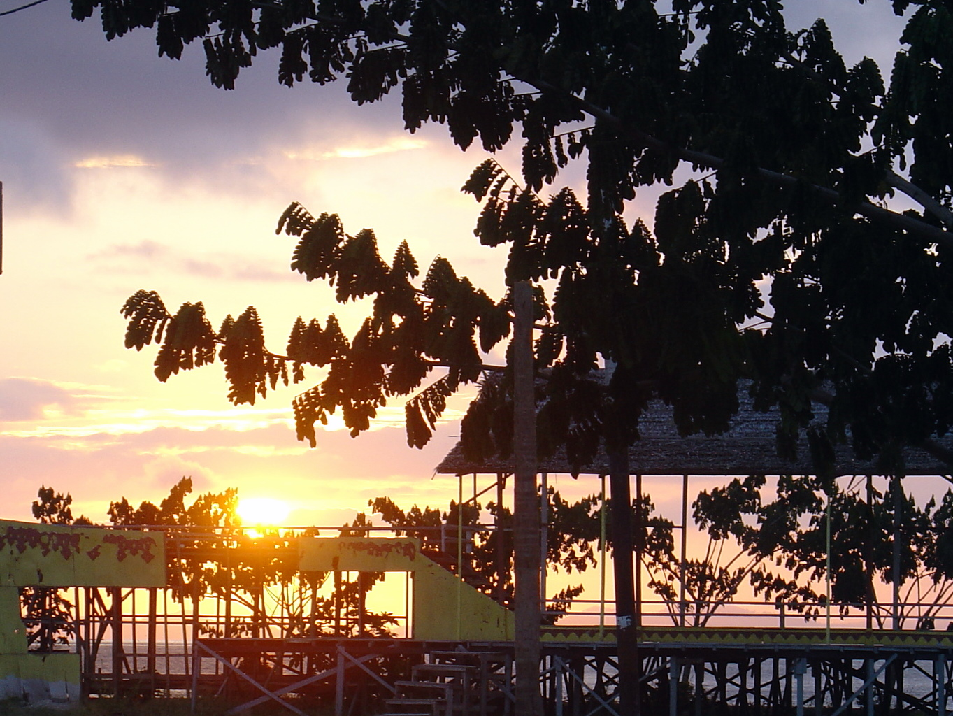 Ternate is an island and town in the Maluku Islands (Moluccas) of eastern Indonesia, located off the west coast of the larger island of Halmahera, the center of the powerful former Sultanate of Ternate. Like its neighbouring island, Tidore, Ternate is a visually dramatic cone-shaped island. The islands are ancient Islamic sultanates with a long history of bitter rivalry. The islands were the world's single major producer of cloves, upon which their sultans became among the wealthiest and most powerful sultans in the Indonesian region. In the precolonial era, Ternate was the dominant political and economic power over most of the "Spice Islands" of Maluku. Today, Ternate is the largest town in the province of North Maluku, within which the island constitutes a municipality (kotamadya).